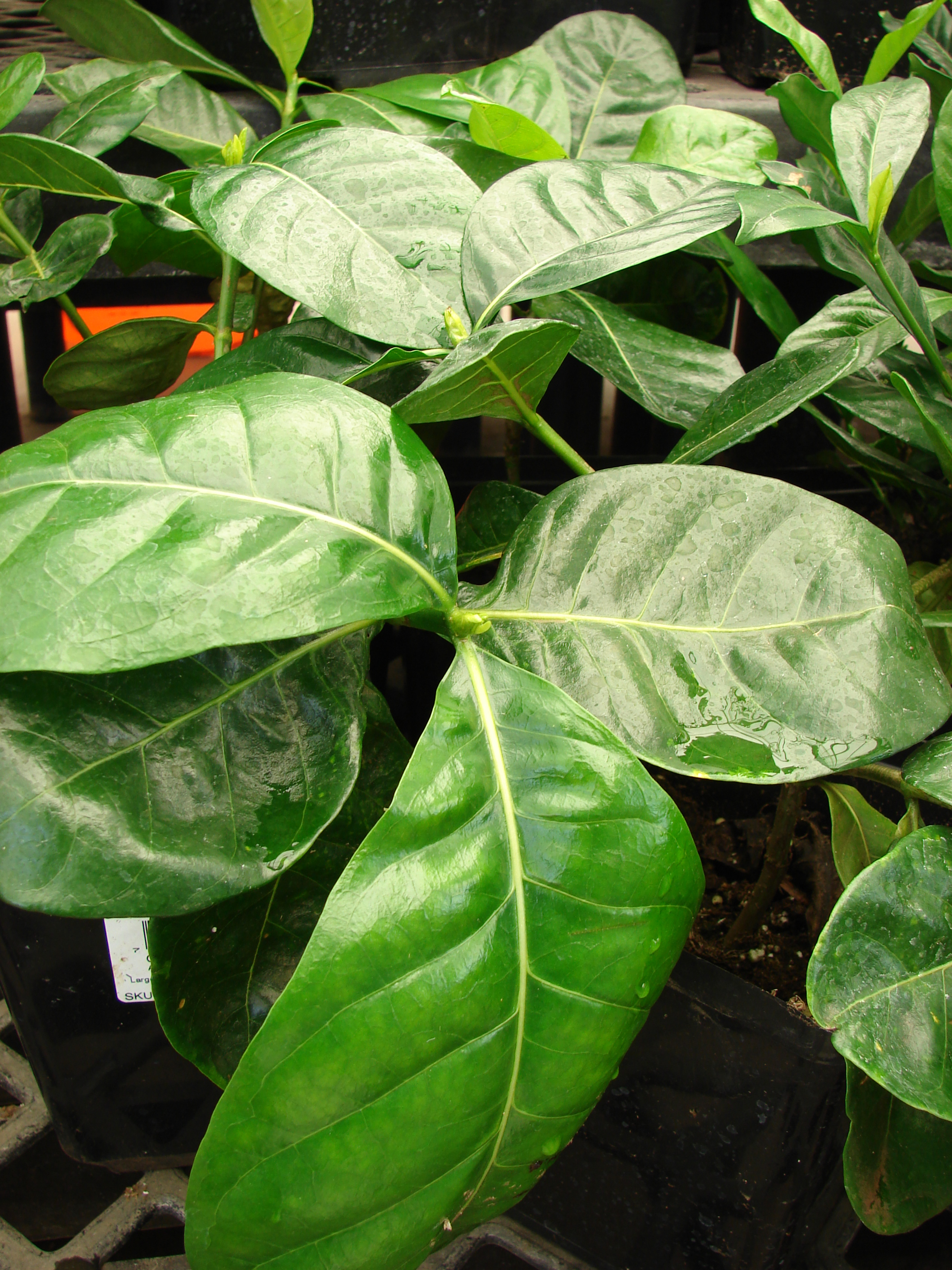 Gardenia taitensis (First Love habit). Location: Maui, Walmart Kahului